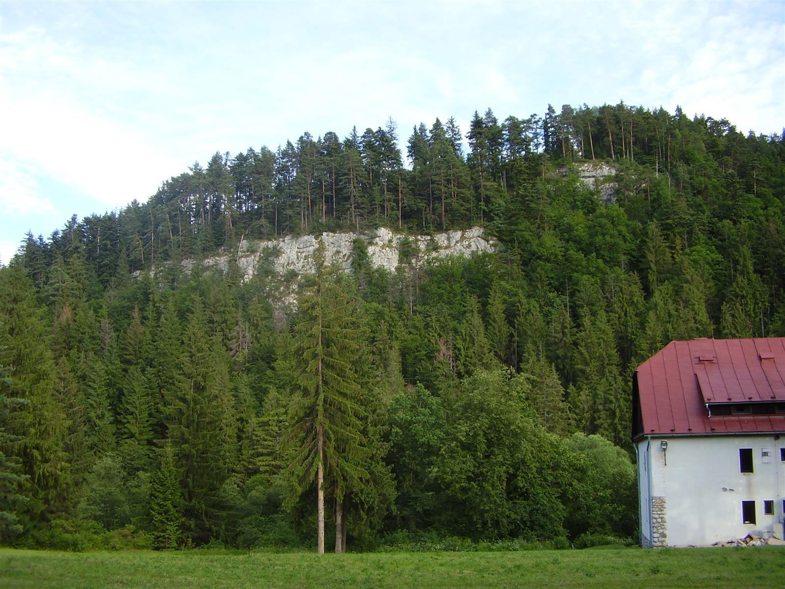 Sovia skala from Geodézia in Čingov